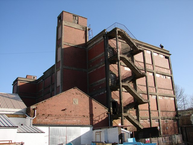 Tongland Works Tongland Works were built in WW1 to make aero-engines. It was adapted after the war to make ‘Galloway’ cars but they failed in 1930. 'Scottish Artificial Silk' had moved in during 1927 and the building became a rayon works. Today the original building is listed but stands empty and possibly unsafe to enter.